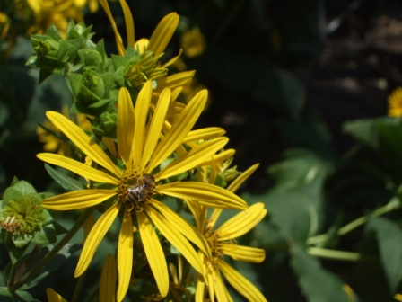 Pollination of Silphium integrifolium observed at Beal Botanical Garden, MSU, East Lansing, MI